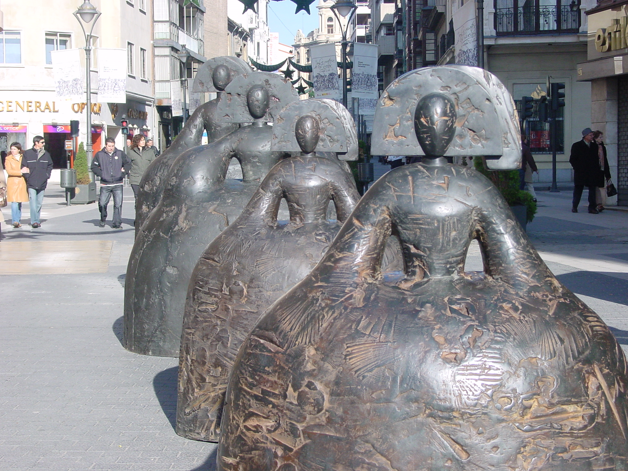 Exhibition of sculpures by the Spanish artist Manolo Valdés in the streets of Valladolid, December 2006.